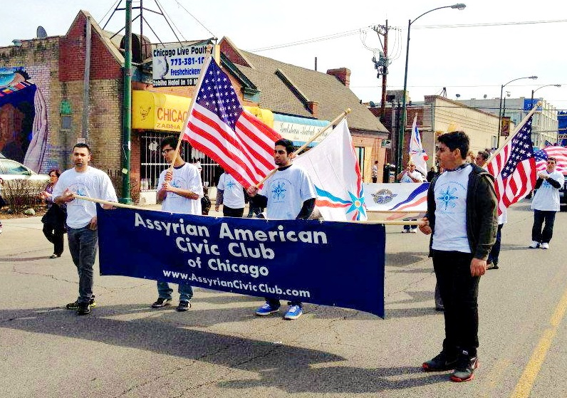 Assyrian Americans in a protest.